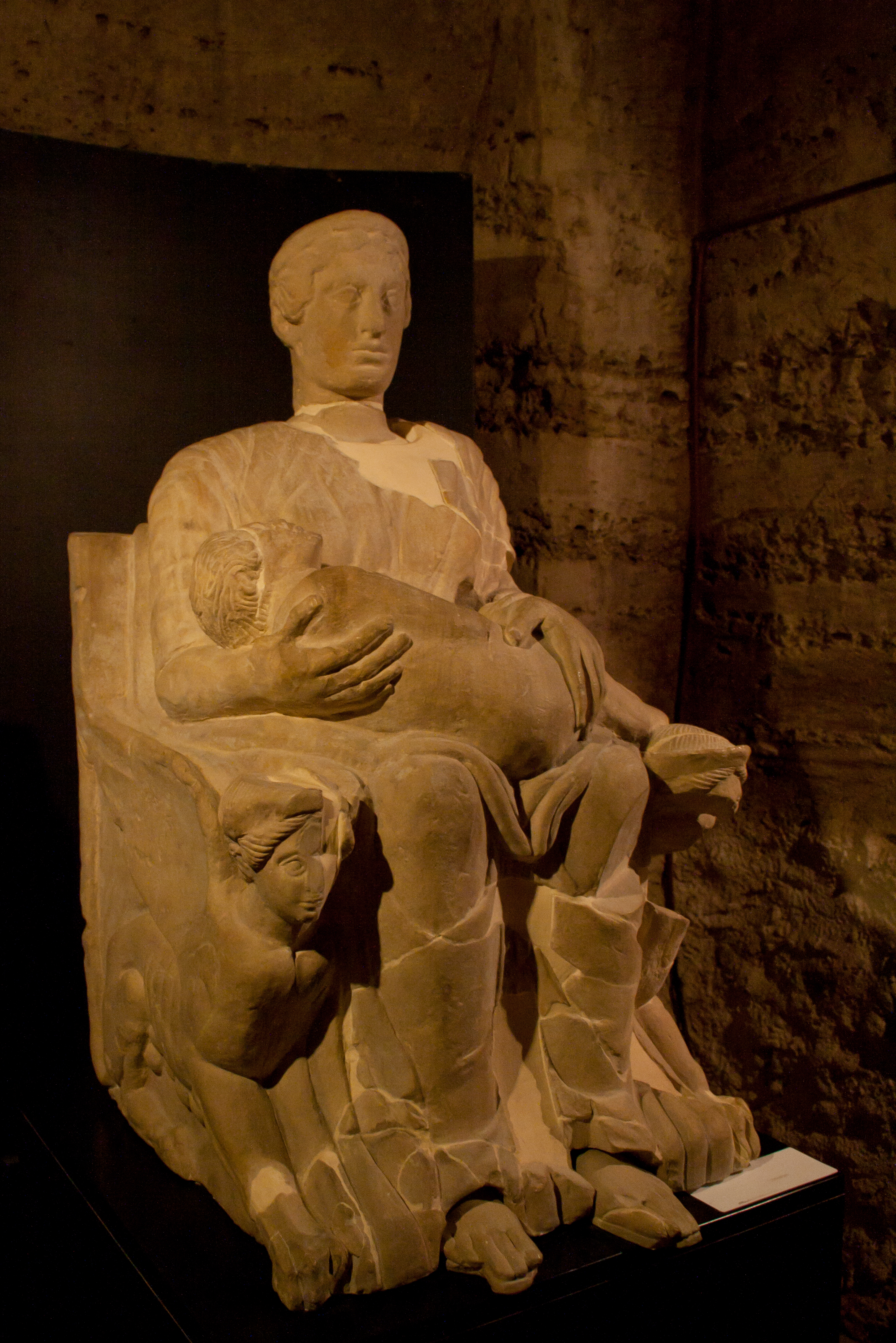 Plaster cast of the Cinerary statue Mater Matuta (Florence, National Archaeological Museum) in the Archeological Museum in Chianciano Terme